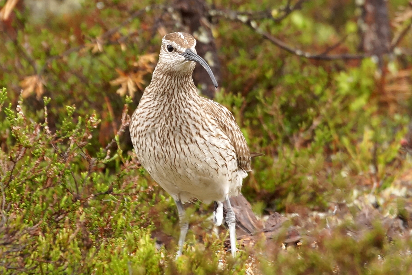 Whimbrel (Numenius phaeopus) in Muonio, Finland